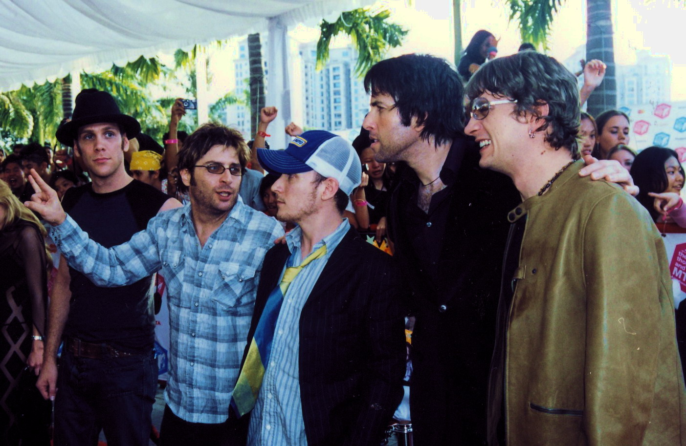 Matchbox Twenty in MTV Asia Awards '03 in Singapore.